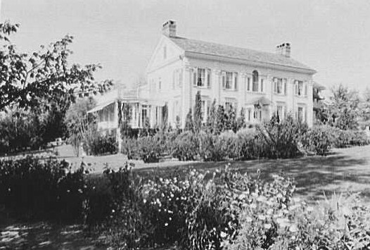 Frederick W. Rockwell, residence in Norfolk (Litchfield County, Connecticut) General garden view from left I cropped This work is from the Gottscho-Schleisner collection at the Library of Congress. According to the library, there are no known copyright restrictions on the use of this work. Images in this collection have been placed in the public domain by the heirs of the photographers. Object location41° 59′ 36″ N, 73° 11′ 33″ W